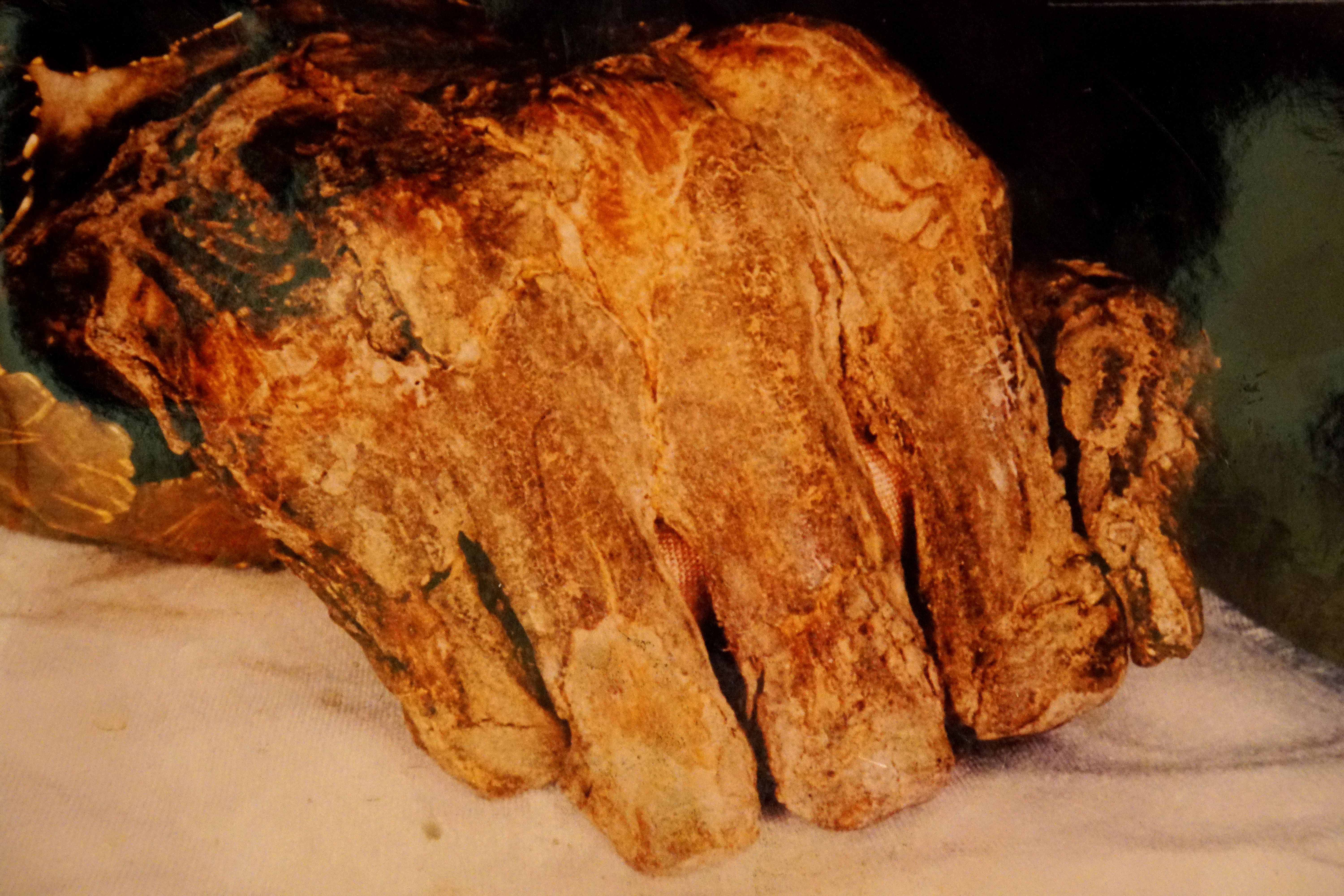 PLEASE, no multi invitations, glitters or self promotion in your comments, THEY WILL BE DELETED. My photos are FREE for anyone to use, just give me credit and it would be nice if you let me know, thanks - NONE OF MY PICTURES ARE HDR. This is a picture of a picture at the church. The first crowned king of Hungary, St. Stephen converted the pagan Magyars to Christianity. In doing so, St. Stephen secured the future of Hungary. He built churches all over Hungary and set down strict laws with which to eliminate pagan customs and strengthen Christianity. As a result, St. Stephen saved the lives of his people and established the Hungarian state. Not long after his death, healing miracles were said to have occurred at his tomb. Thus he was canonized in 1083, and as part of the process of saint-ing, his corpse was exhumed from his crypt. It is said that his right arm was found to be as fresh as the day he was buried, and was promptly cut off to be preserved and venerated.